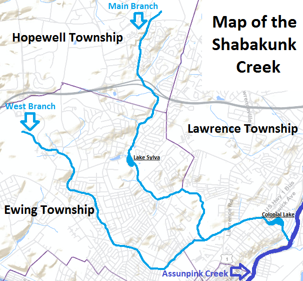 Map of the Shabakunk Creek. Background map from US Census Bureau, highlighted with streams in question and names by uploader.